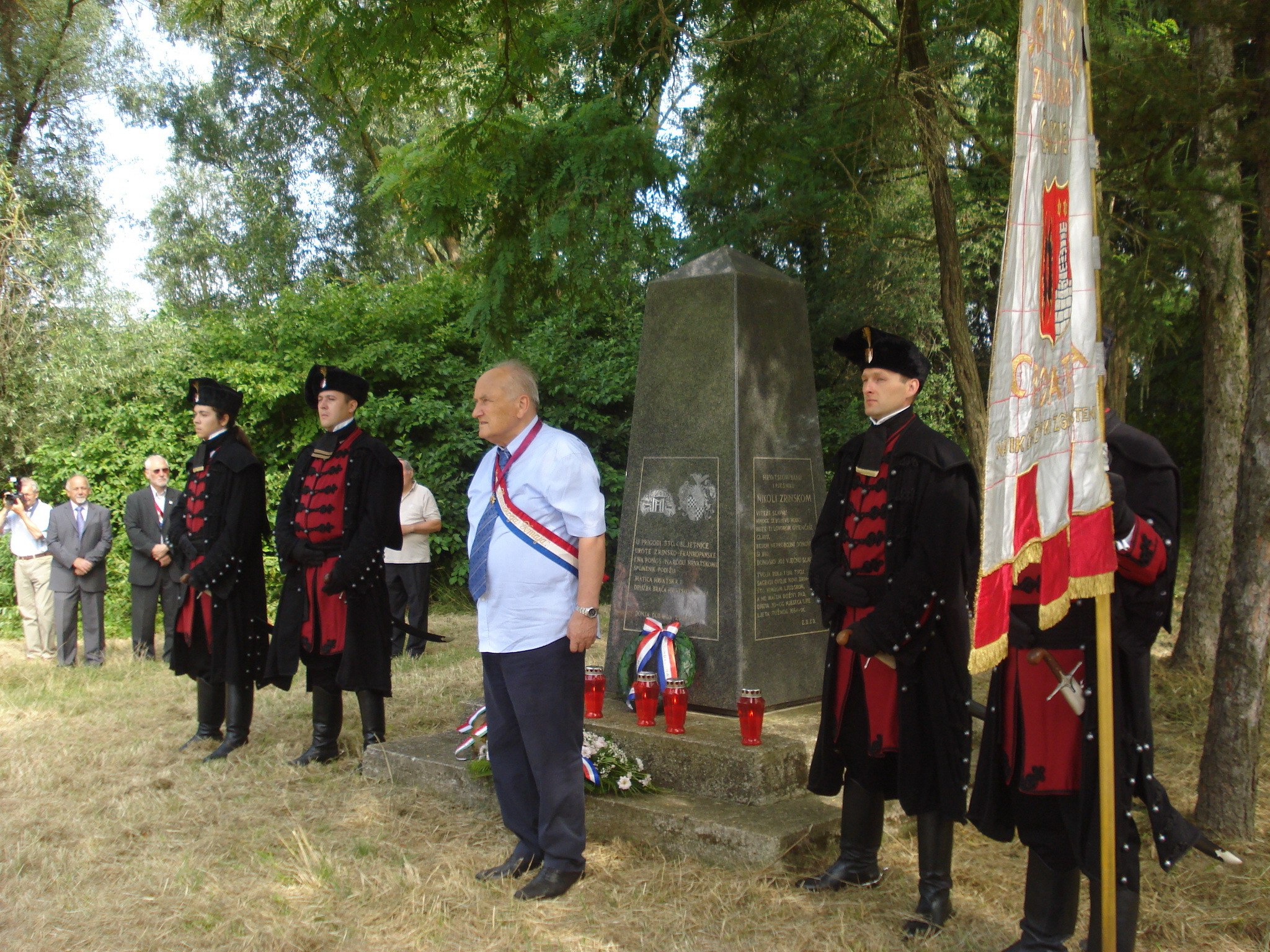 Zrinski guard - historical military unit from Čakovec, northern Croatia (16th century), at Novi Zrin Castle monument, near Donja Dubrava village (Međimurje County)